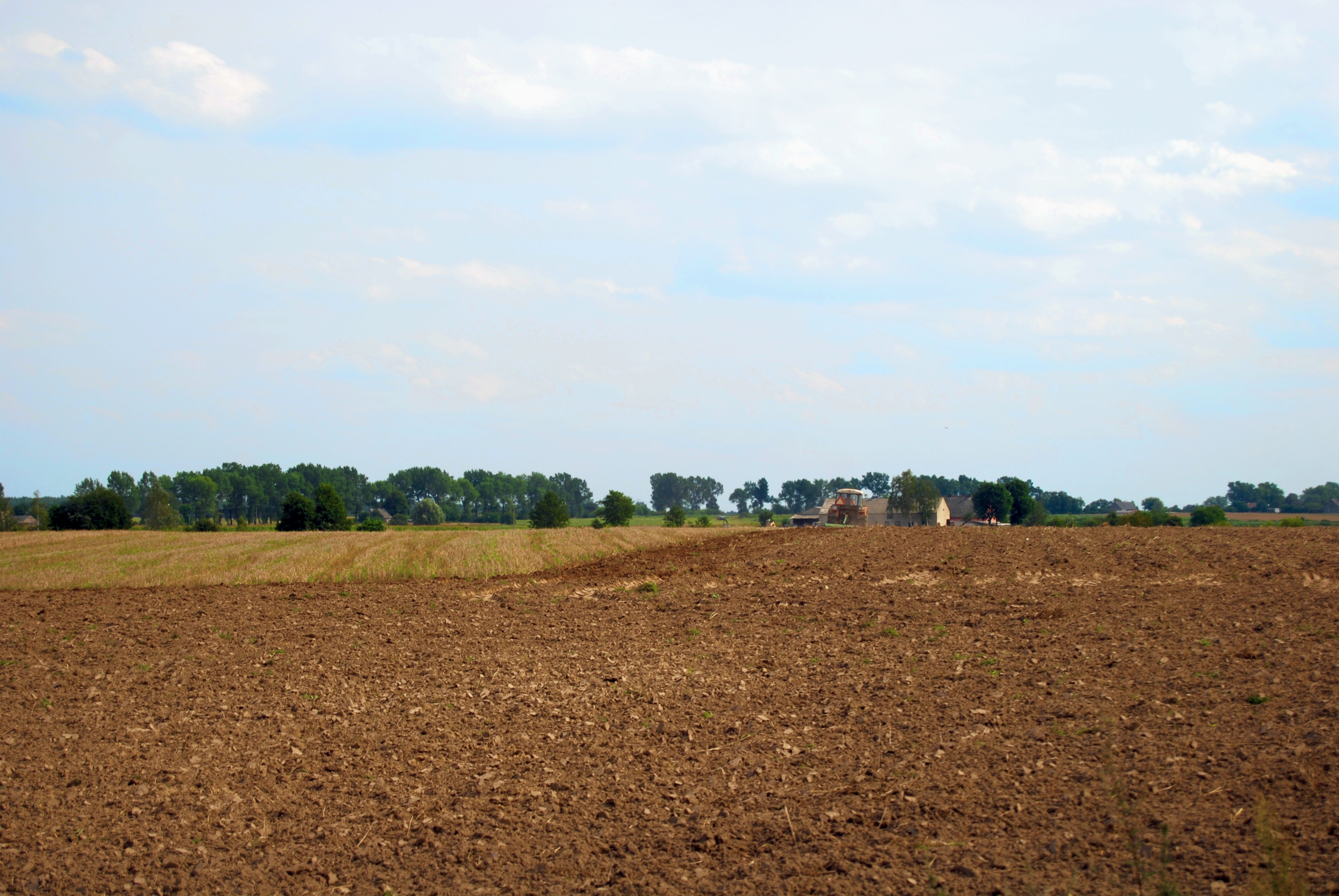 arable land